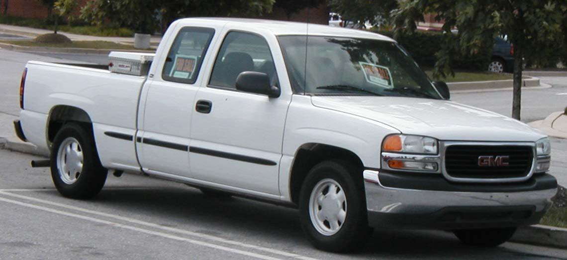 1999-2006 GMC Sierra extended cab photographed in USA.